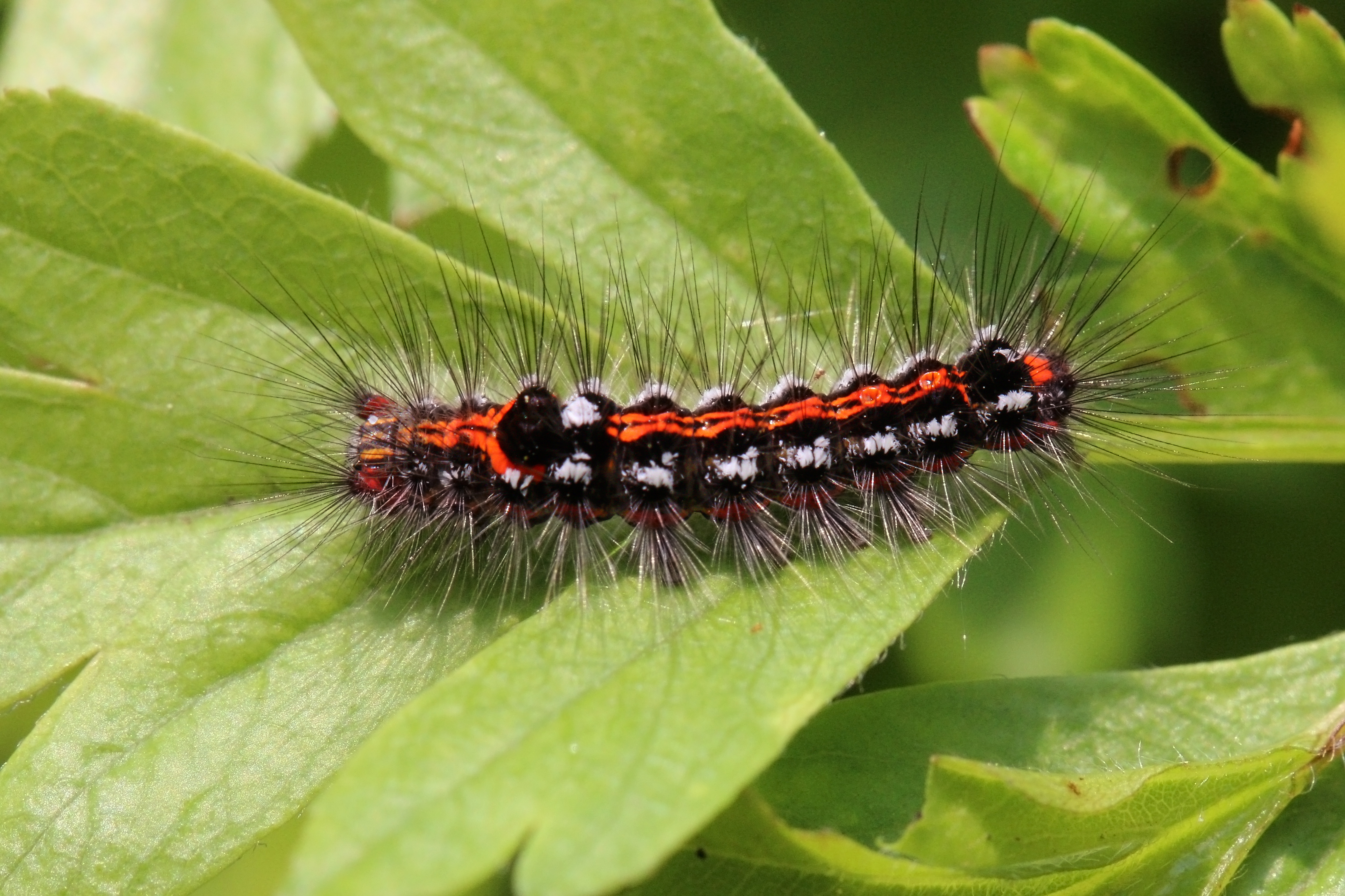 Yellow-tail swan moth (Euproctis similis) caterpillar, Aston Upthorpe, Oxfordshire